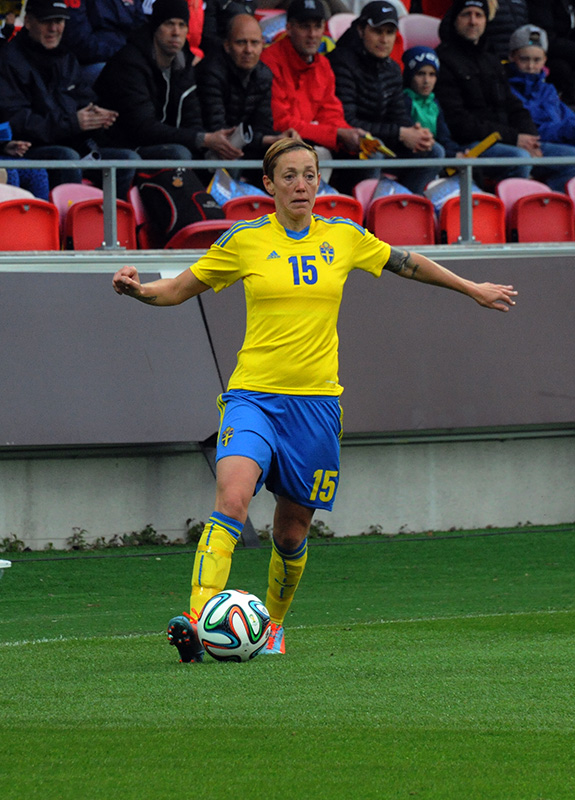 Swedish footballer Therese Sjögran